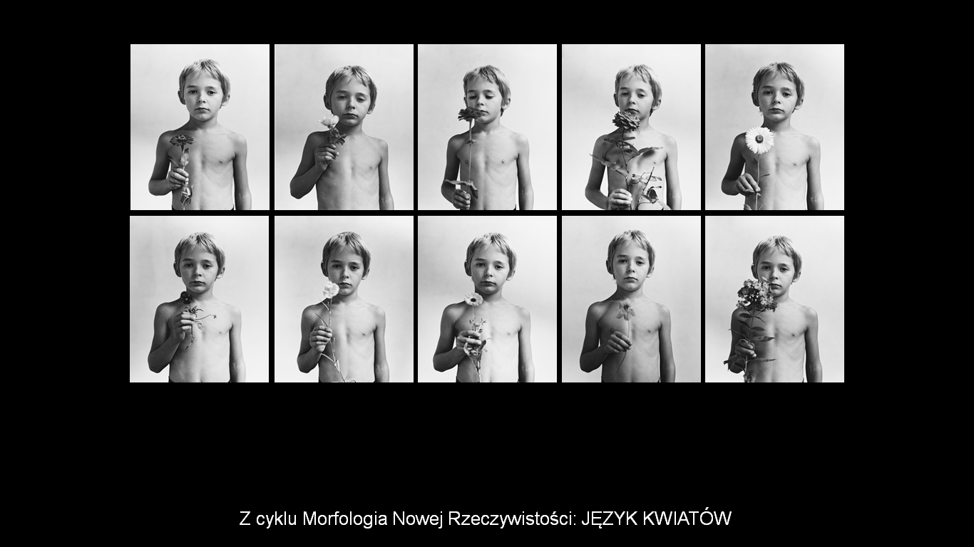 A cycle of photograbhs by Anna Kutera, Polish visual artist.